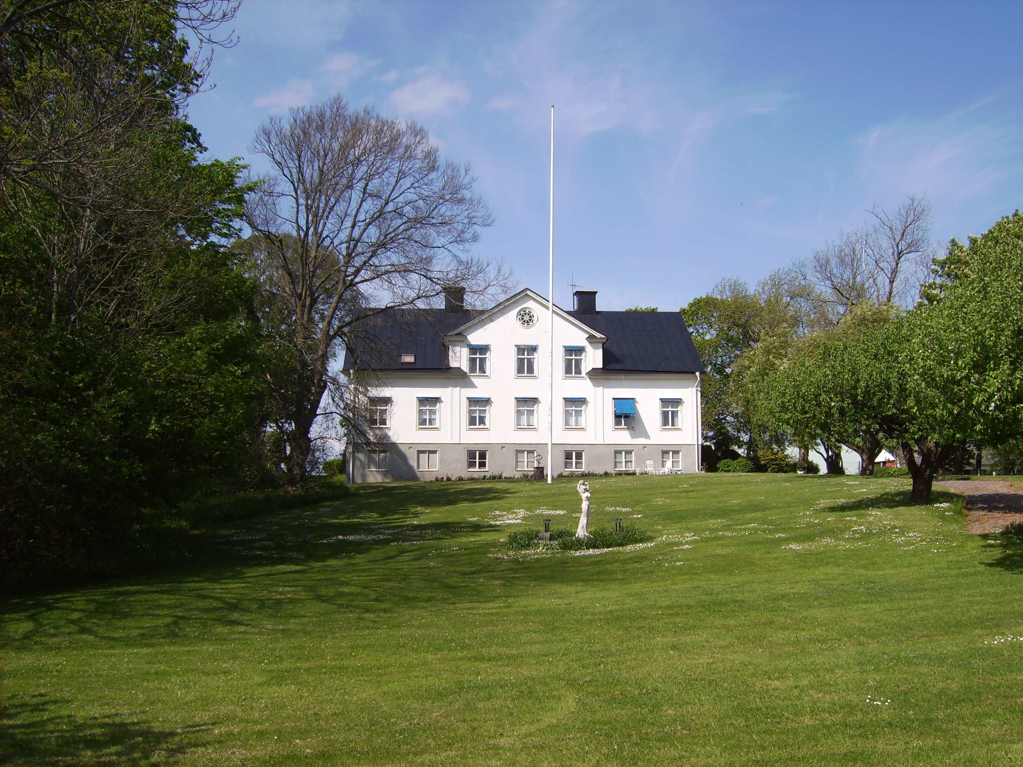 The mansion Linghems gård are named the first time 1315. The urban district Linghem in Linköping have been built near the big farm.